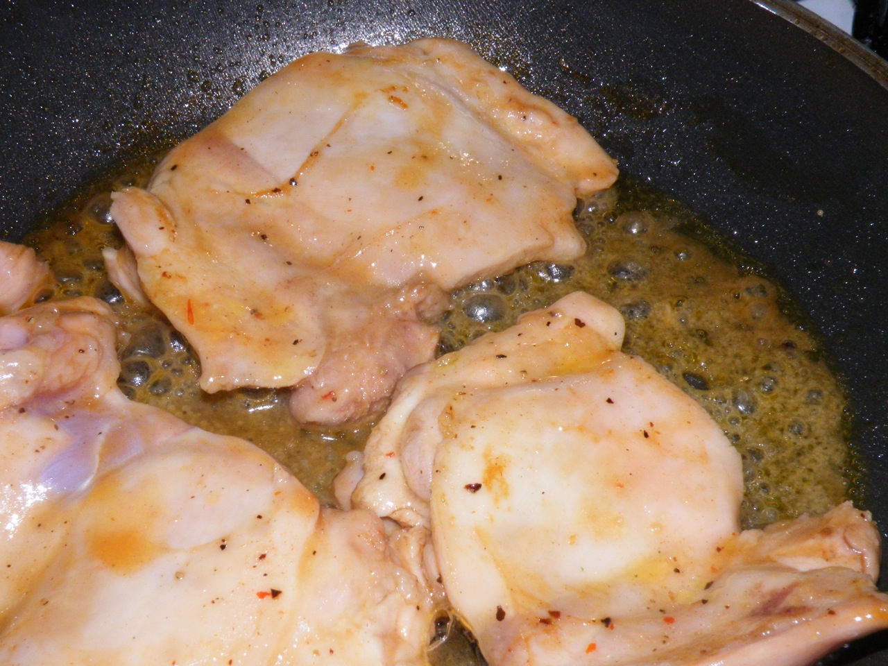 frying chicken teriyaki